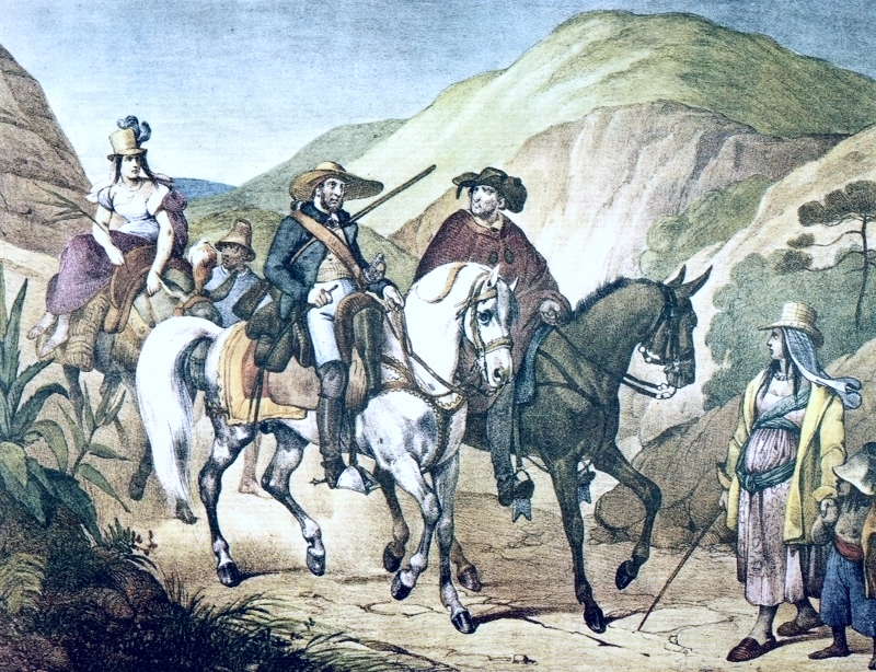 Minas Gerais inhabitants. People of Minas Gerais